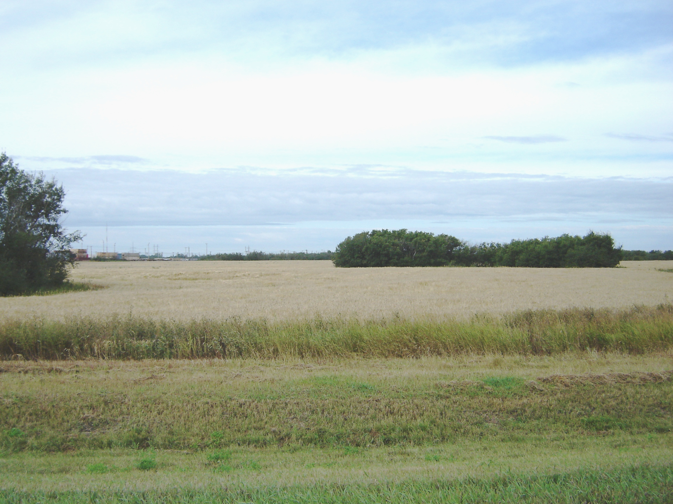 This is a farm near Saskatoon, Saskatchewan displaying typical Aspen Groves surrounded by fields of Wheat. (This picture was taken by myself, parihav, on a trip to Saskatoon) (c) 2005